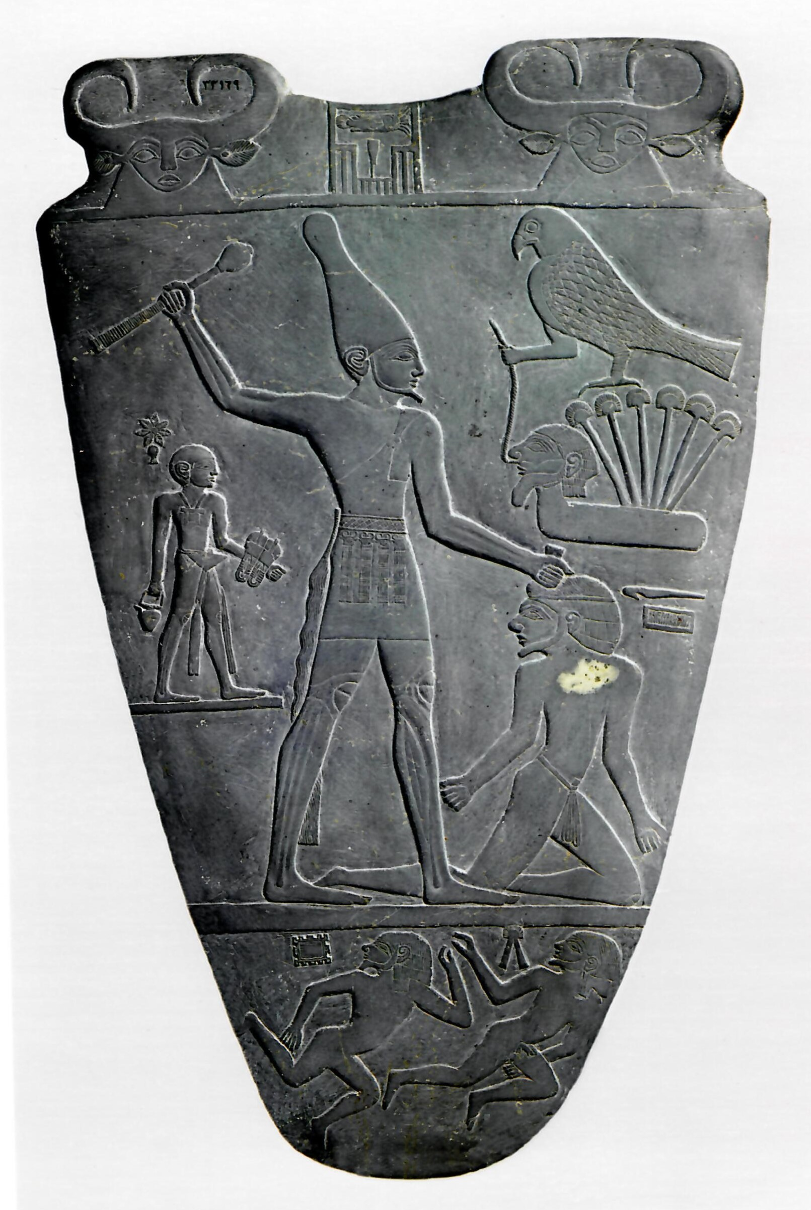 Verso of the Narmer Palette